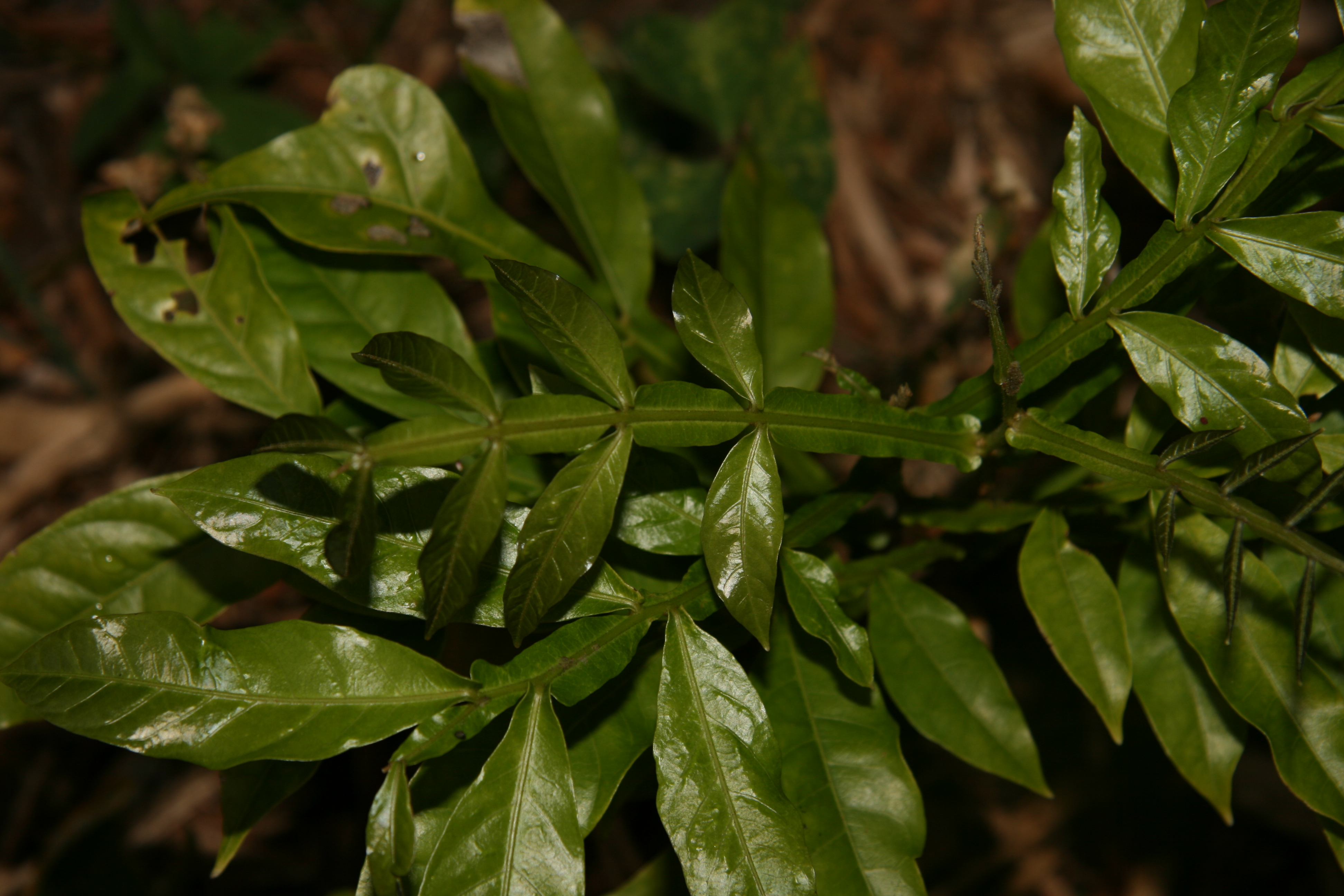 Harpullia frutescens showing attractive dark grey new growth, cultivated Sydney